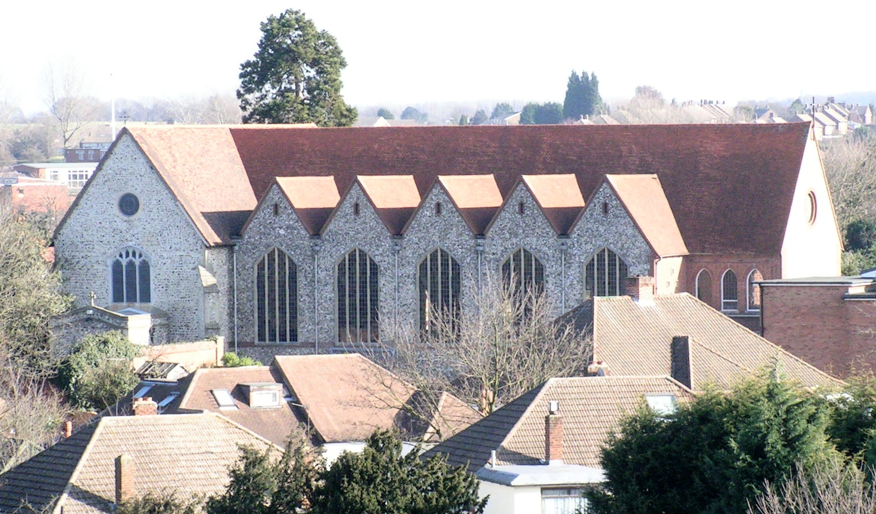 All Saints Church, Orpington, showing the large 1950s extension. Photographed (from the top of the Walnuts car park) by James Gray, 10th February 2006.